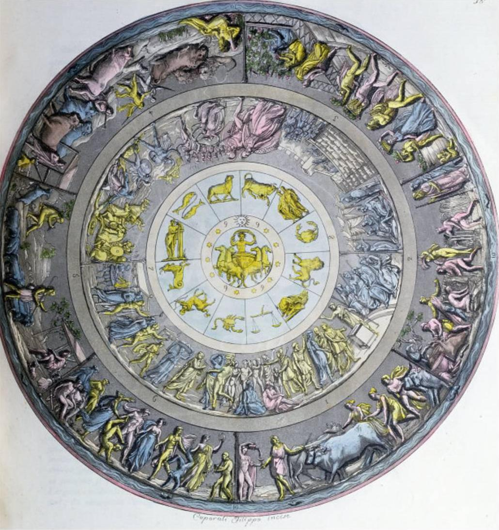 An interpretation of the Shield of Achilles design described in Book 18 of the Iliad, by Angelo Monticelli (1778-1837)